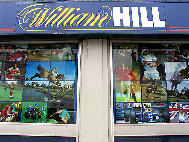 Betting Shop. Another typical past time of many British people. Betting shops are frequently found in many towns and cities. This one is situated in the road leading off the A205 to Turnham Green Tube station, north of it.